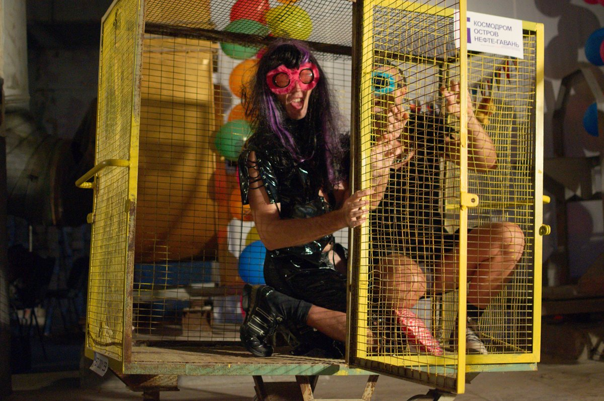 Концерт гурту "Рапани" на обувній фабриці Terra Futura X 2011